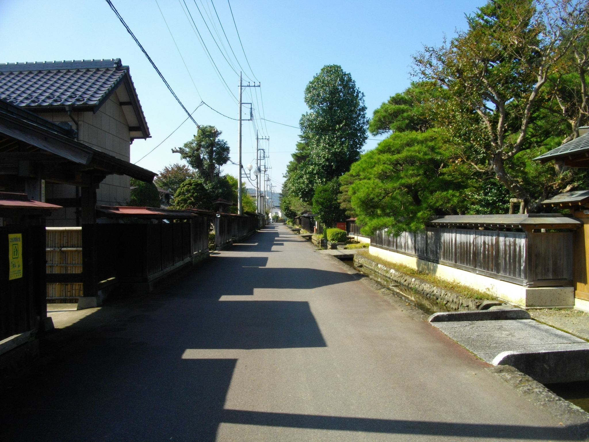 Kitsuregawa Goyobori